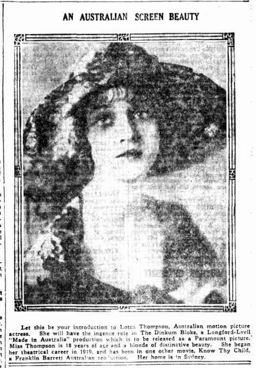 An Australian newspaper introducing actress Lotus Thompson.